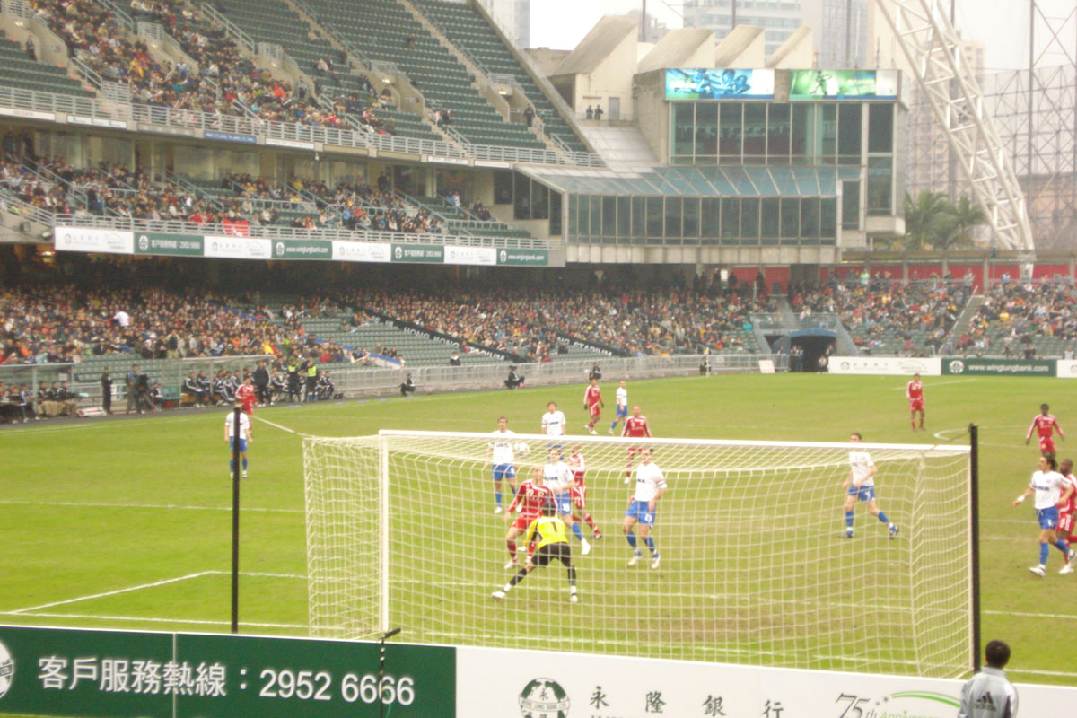 HK Lunar New Year Cup 2008